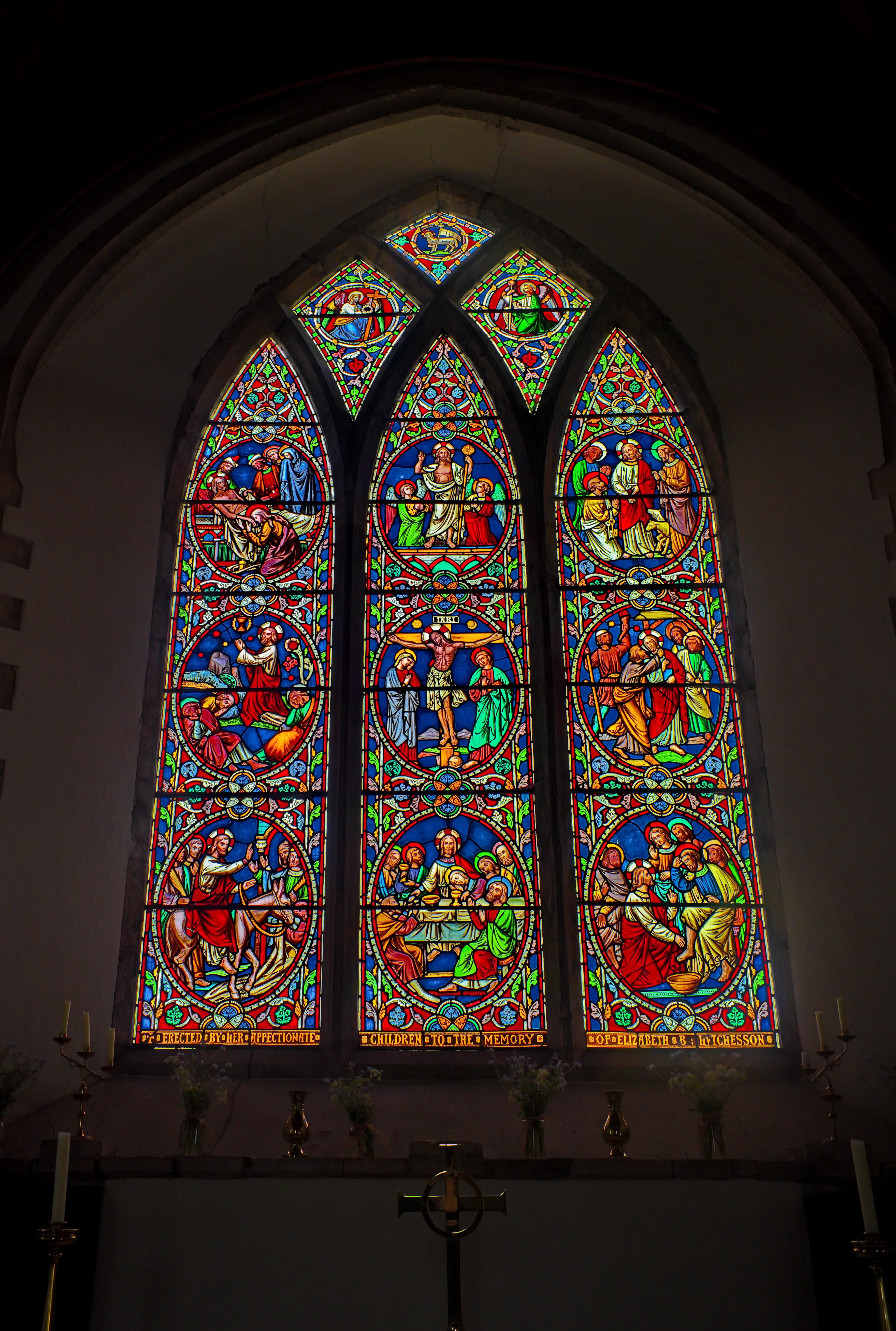 The east chancel stained glass window of Elmstone Church in Kent, depicting the Passion of Christ; produced by William Wailes around 1863.